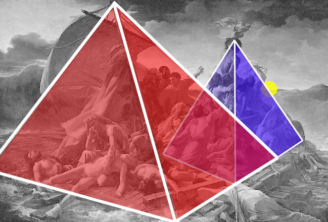 Le Radeau de la Méduse by Théodore Géricault, held at the Louvre in Paris